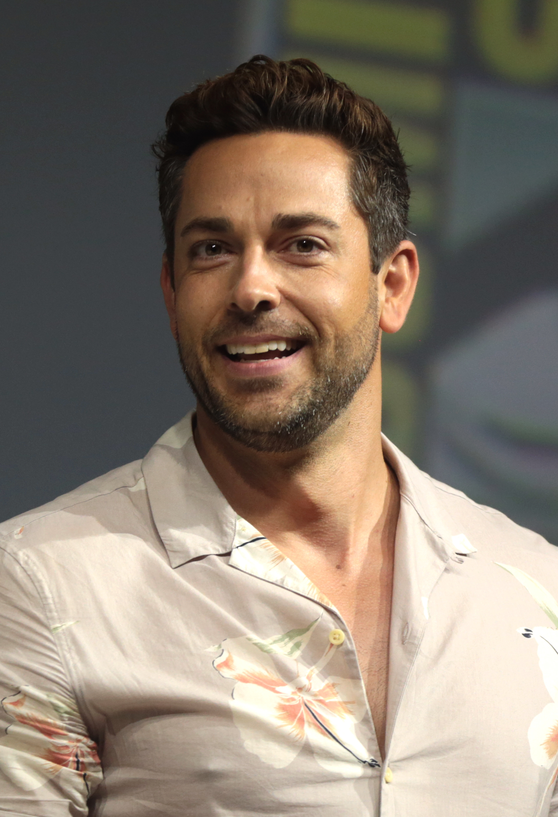 Aisha Tyler and Zachary Levi speaking at the 2018 San Diego Comic Con International, for "Shazam!", at the San Diego Convention Center in San Diego, California.